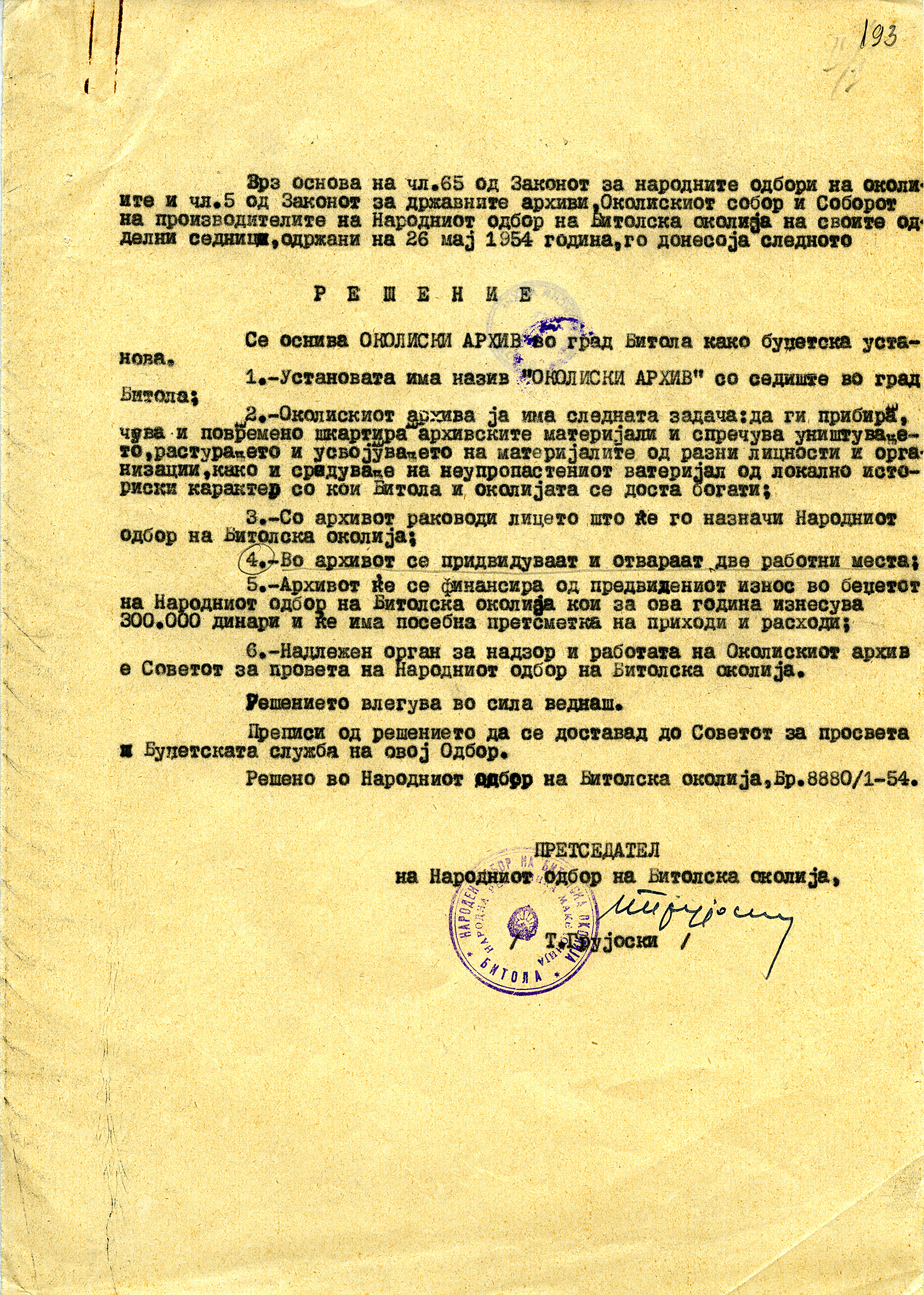 Decision on establishment of the Regional Archive in Bitola, delivered at a meeting of the National Board of Bitola area on May 26, 1954. This media file is produced by Wikipedian in Residence in Category:Wikipedian in Residence at DARM in 2016.